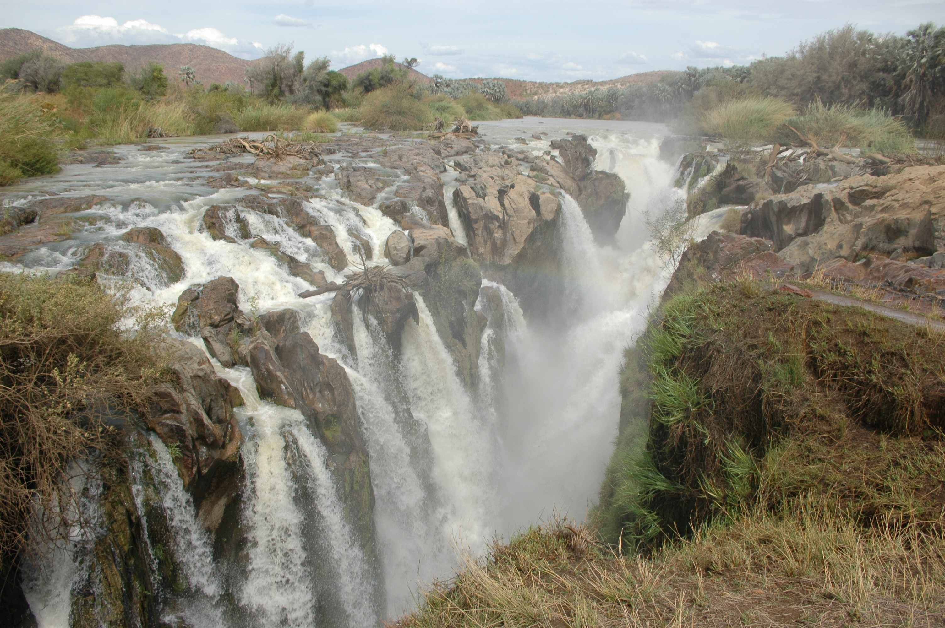 Epupa Falls, Cunene River on the border of Angola and Namibia.